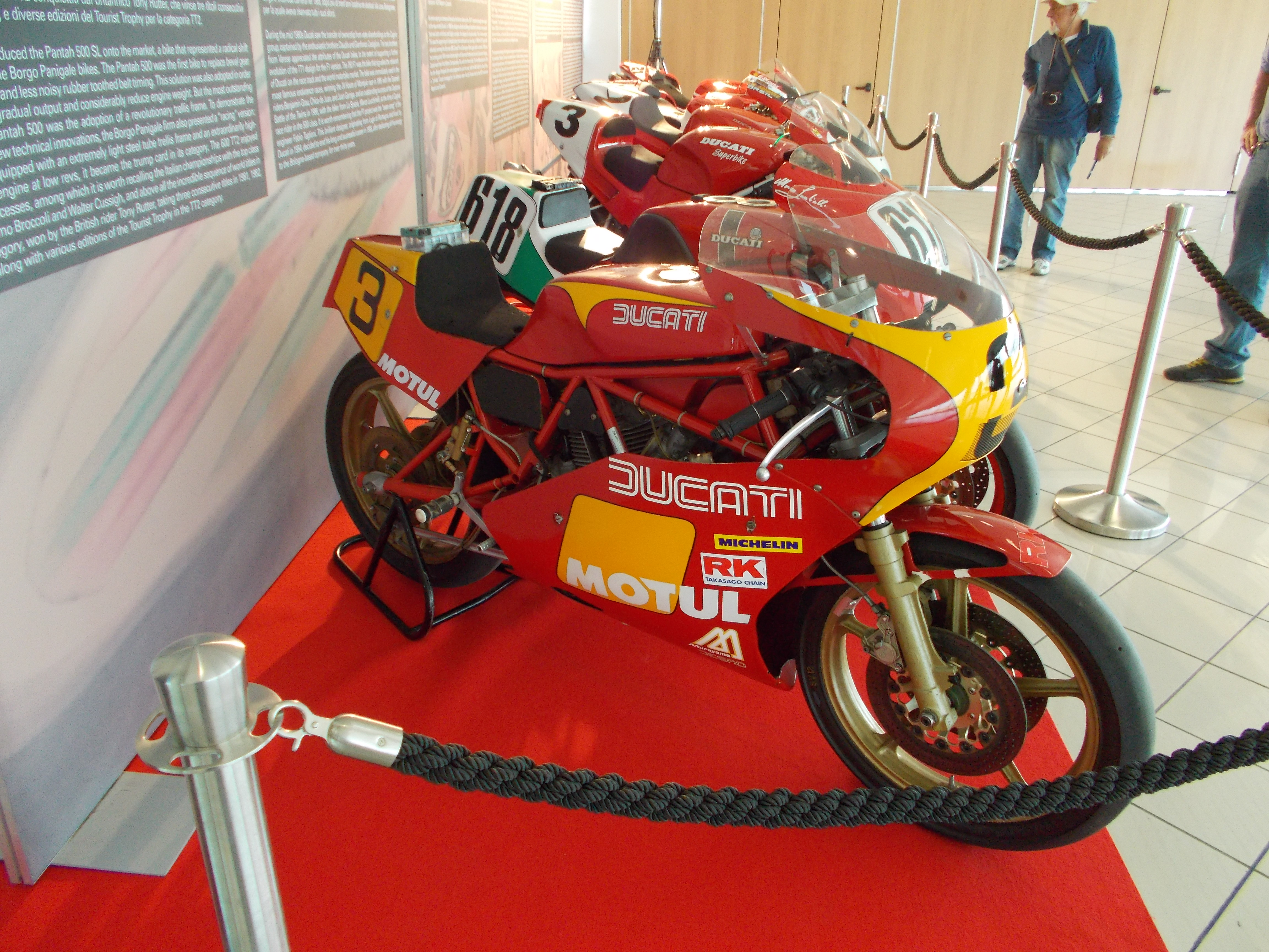 A 1980 Ducati TT2 from Museo Ducati, shown during Misano Classic Weekend (18-20 October 2013).